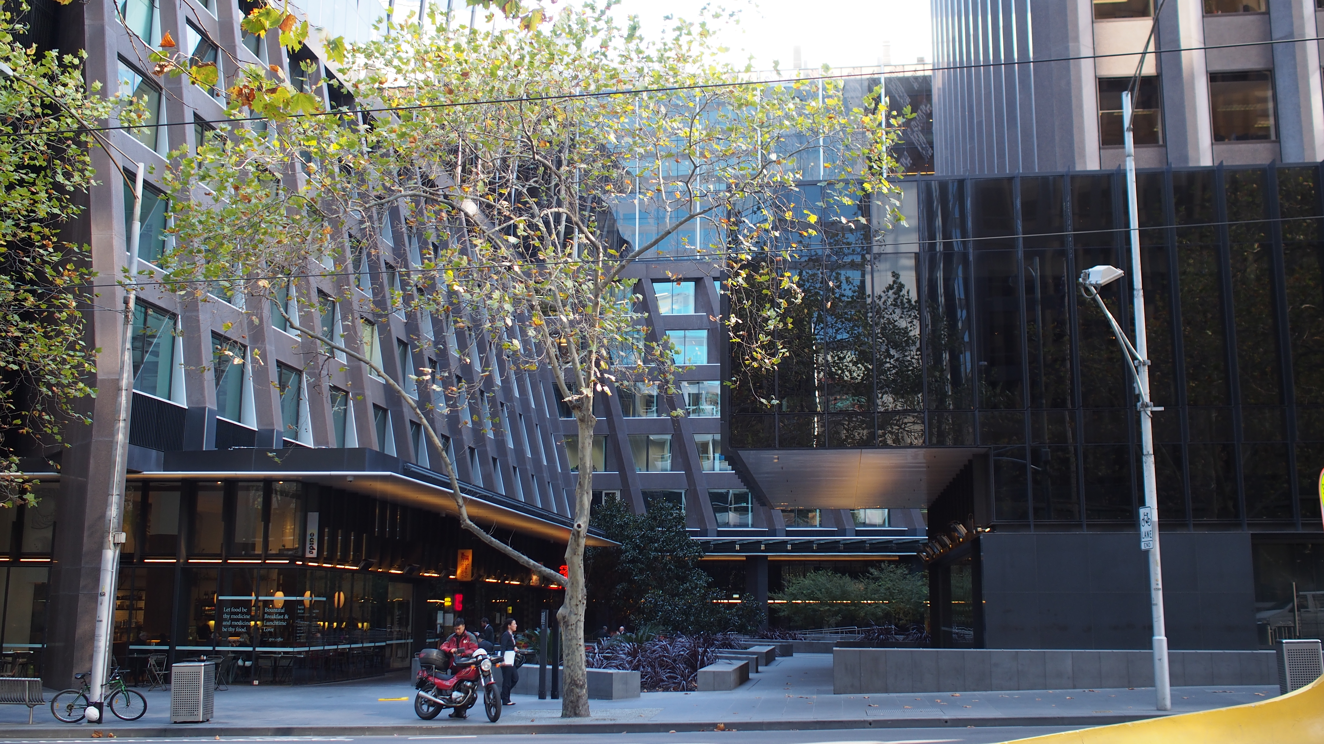 William Street view of the AMP Square